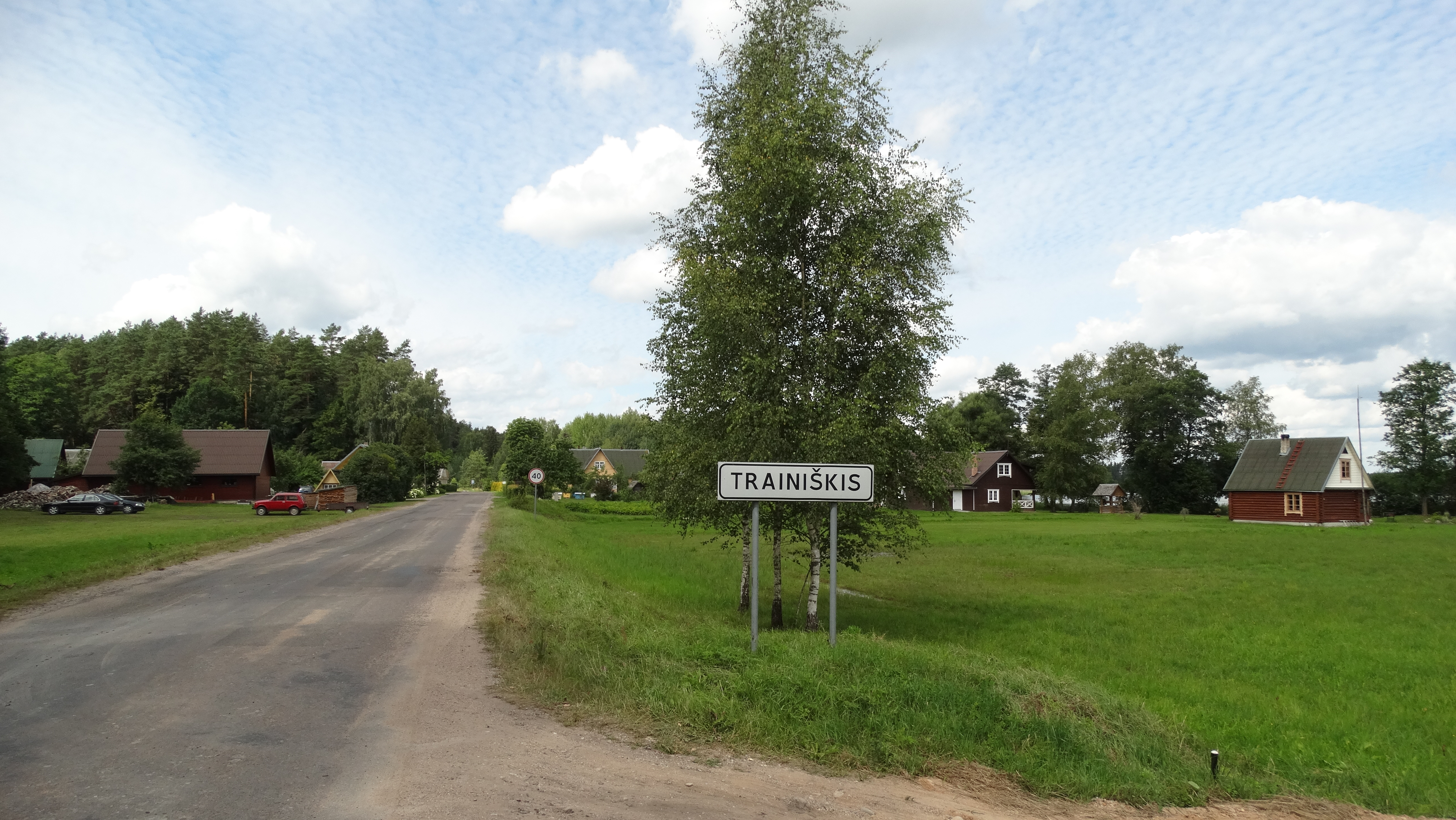 Trainiškis, Ignalina District, Lithuania